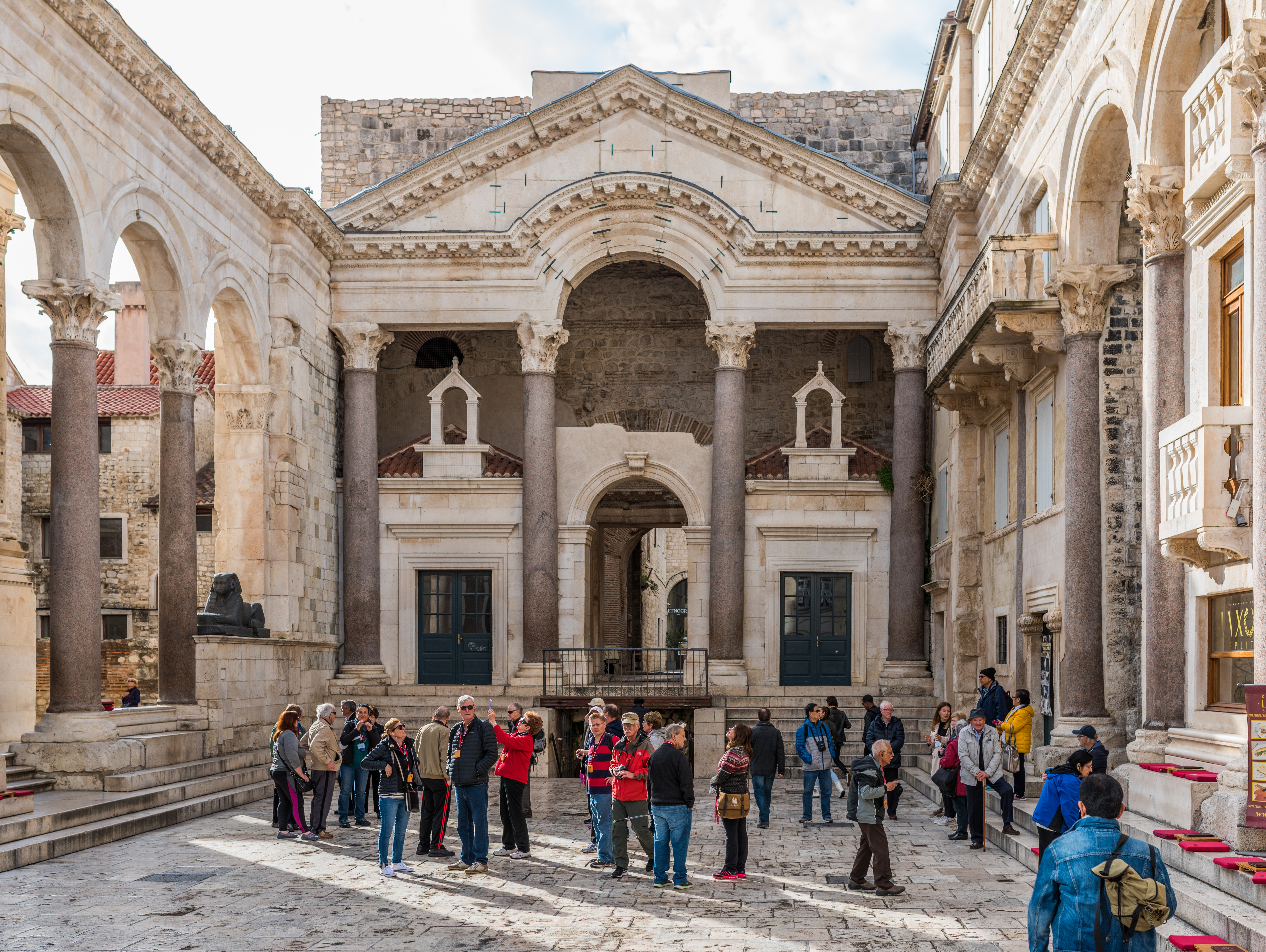 Split Croatia November 2017